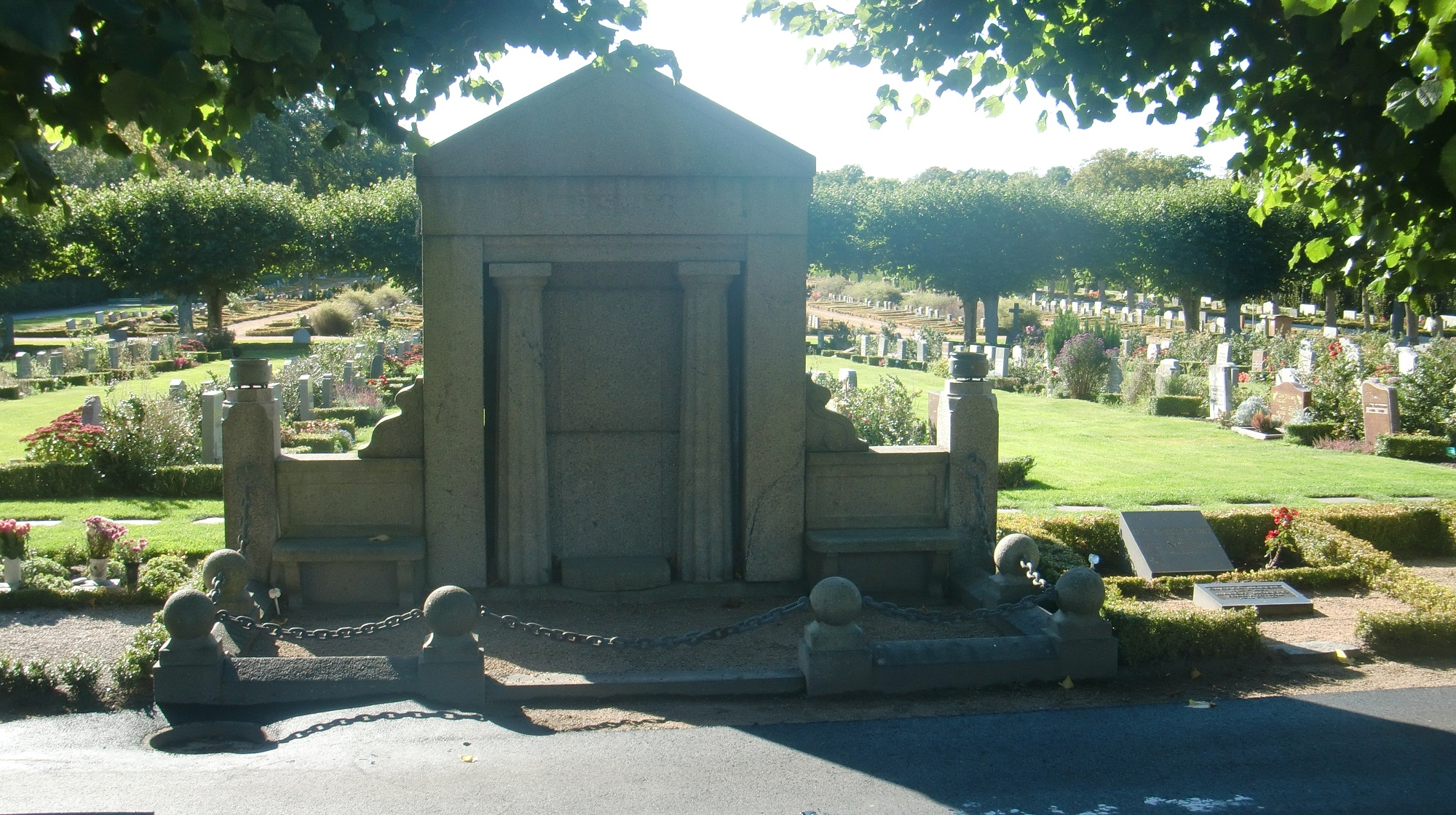 L.O. Smith's grave at Karlskrona graveyard.